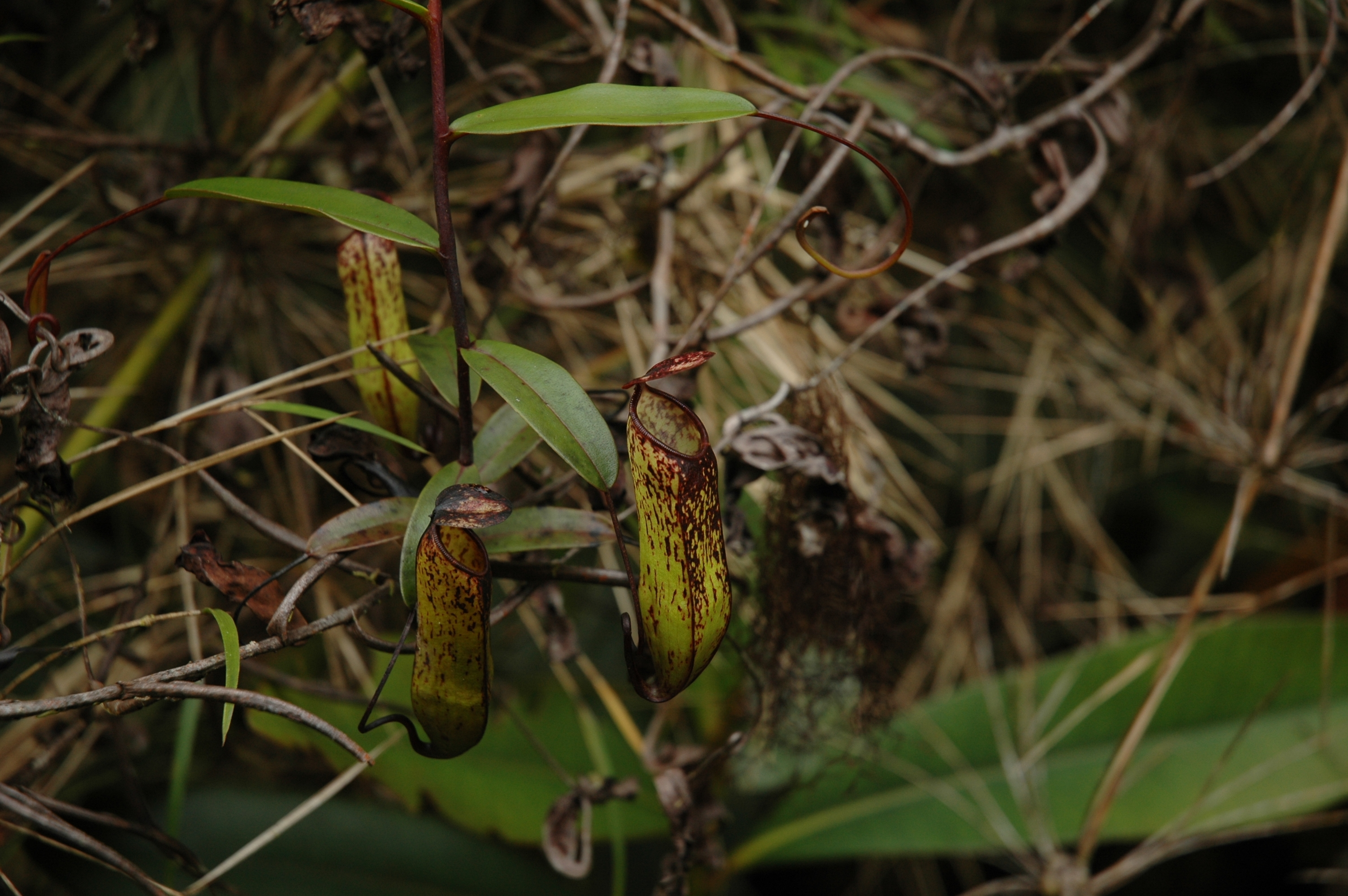 Nepenthes muluensis Gunung Murud by Jeremiah Harris